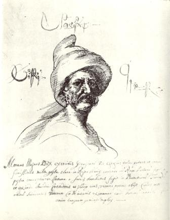 The only surviving original portrait of the prominent Georgian general Giorgi Saakadze was drawn by the Italian missioner Teramo Castelli in Istanbul in 1626.